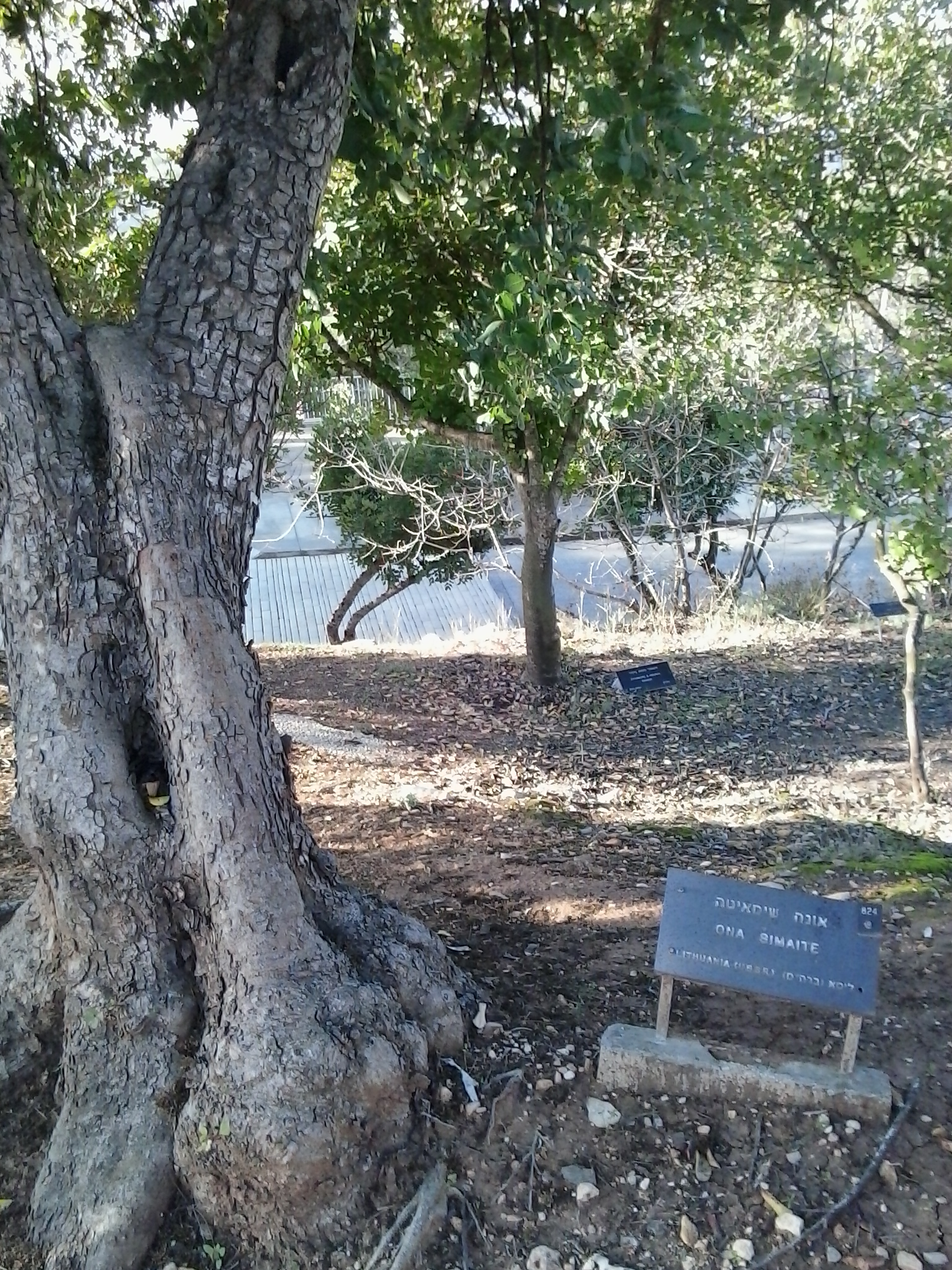 The tree planted at Yad Vashem honoring Righteous Among the Nations Ona Šimaitė